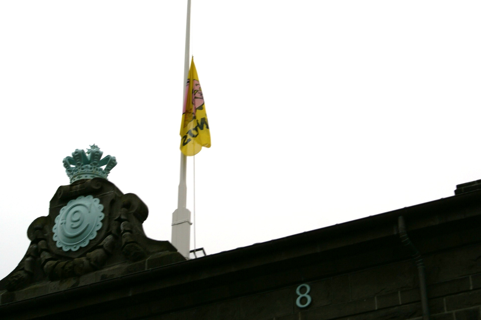 Week 5. Baugs flag hoisted at Althingishus. The Kitchenware-Revolution in Iceland was organize by Hördur Torfason and "Raddir Fólksins". It started in the wake of the collapse of the banking system followed be the decimation of Icelandic economy in the beginning of October 2008. It resulted in the resignation of Geir H. Haarde and his cabinet on January 26. 2009. The protest meetings were held every Saturday at the Austurvöllur square in front of Alþingishús - the Icelandic parliament house. The first meeting (week 1) was dated Saturday 11. October 2008. The 16th meeting dated January 24. 2009